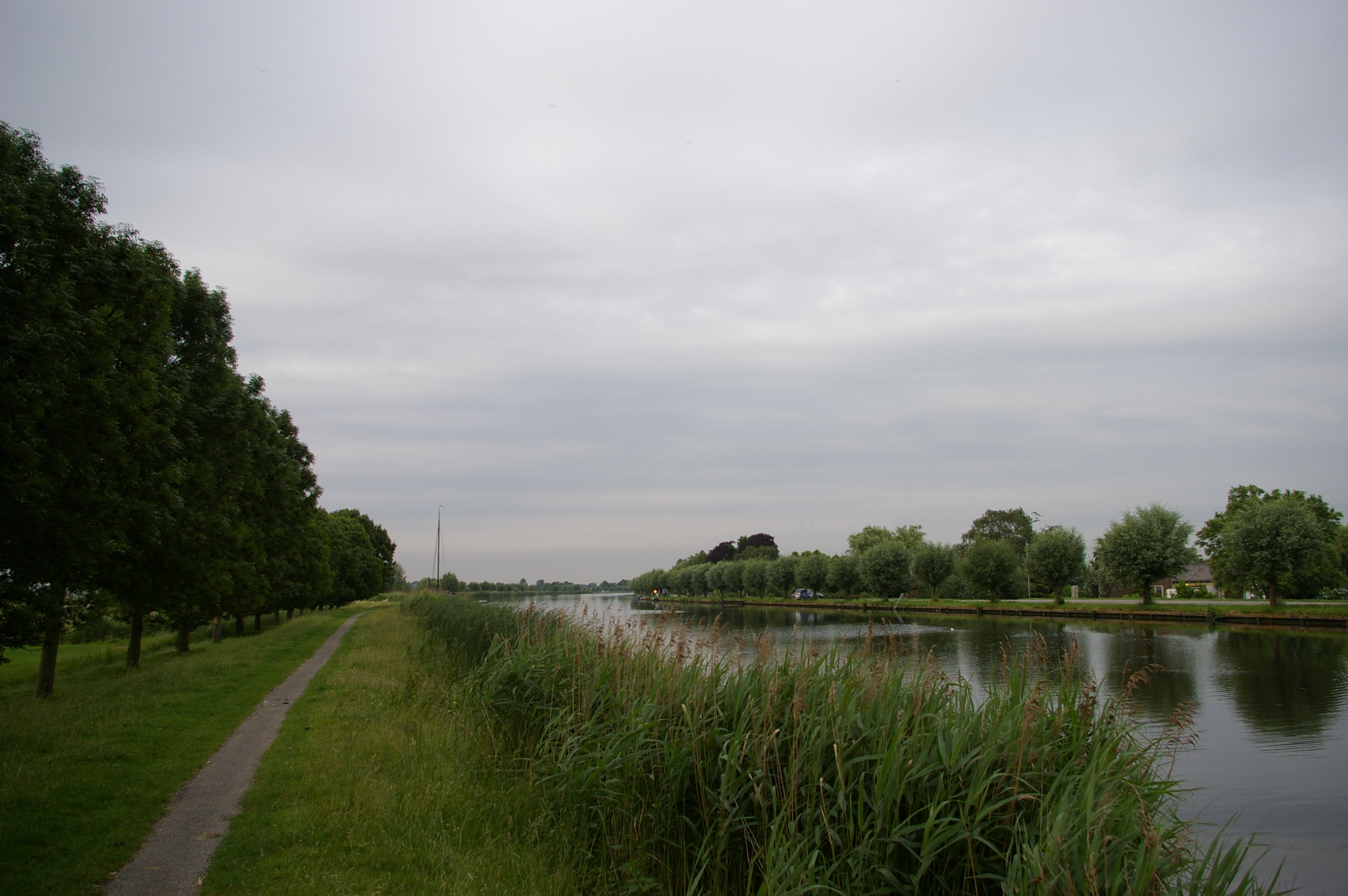 View on the Pelgrimspad hiking route (Pelgrimspad) between Tolhuissluis lock and Vrouwenakker, about 20 kms south of Amsterdam, looking north